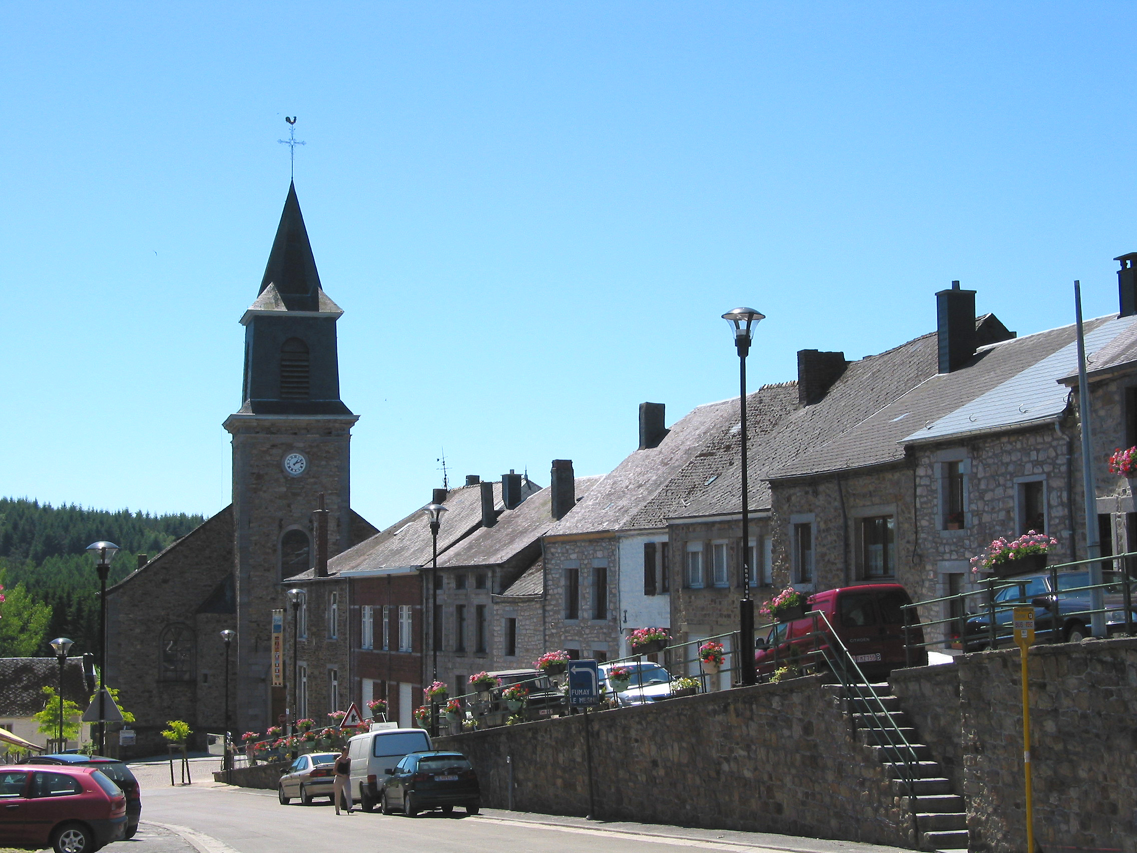 Oignies-en-Thiérache (Belgium), the neighourhood of the Saint Remy’s church (1857).